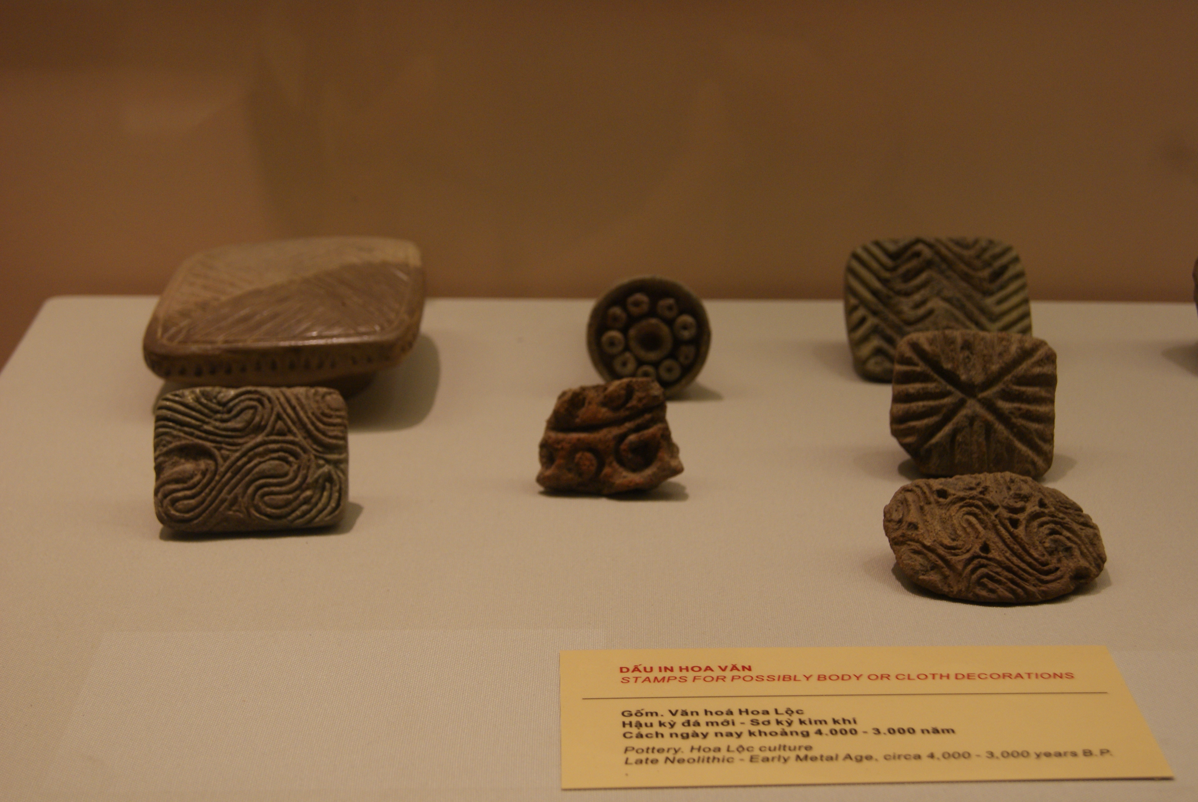 Terracotta pieces used to create patterns on pottery-Đông Sơn culture